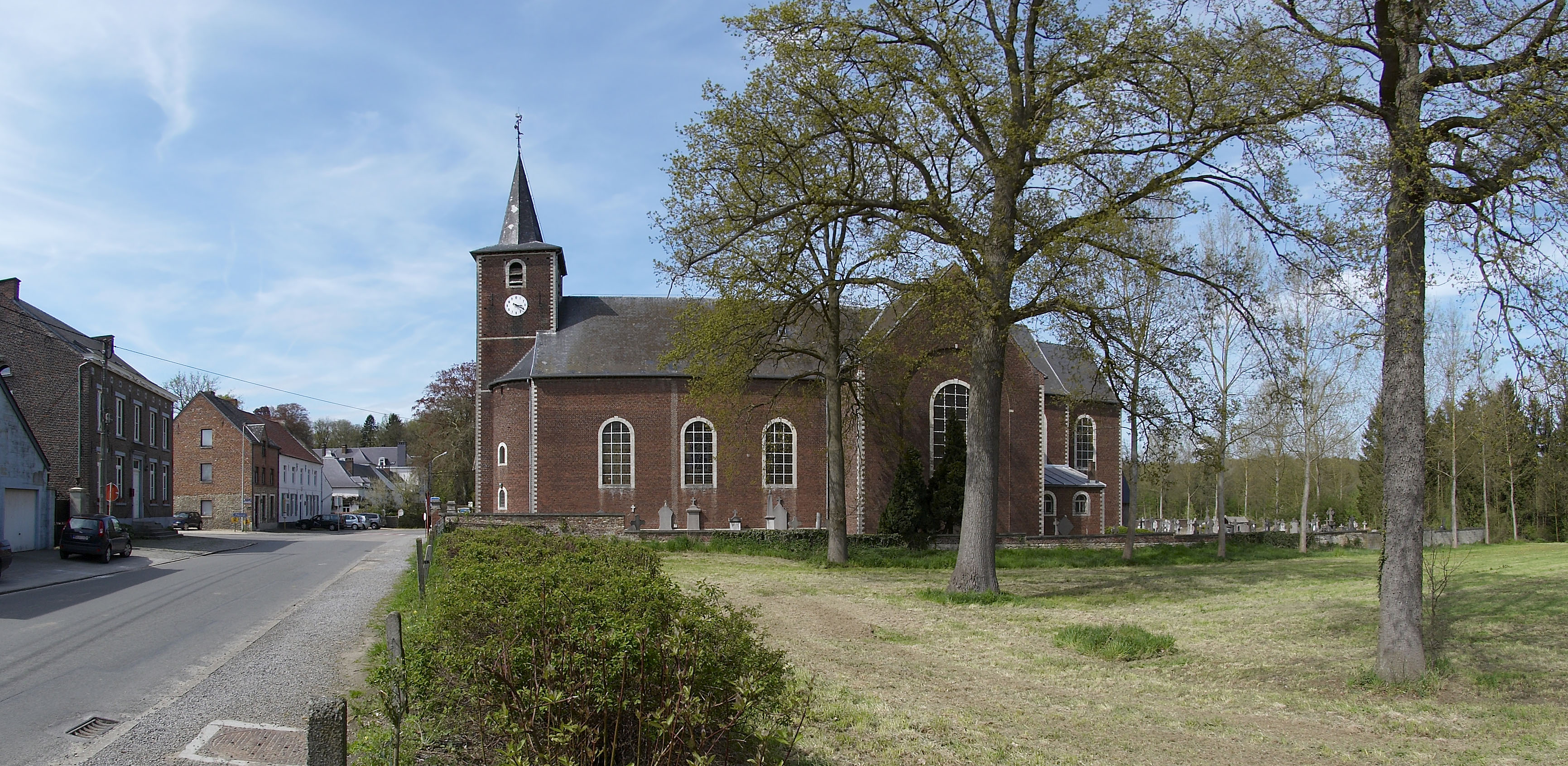 Church "Saint Jean Baptiste" in Nethen (Grez-Doiceau) - Google Maps - Google Earth |scale:6000_heading:NW